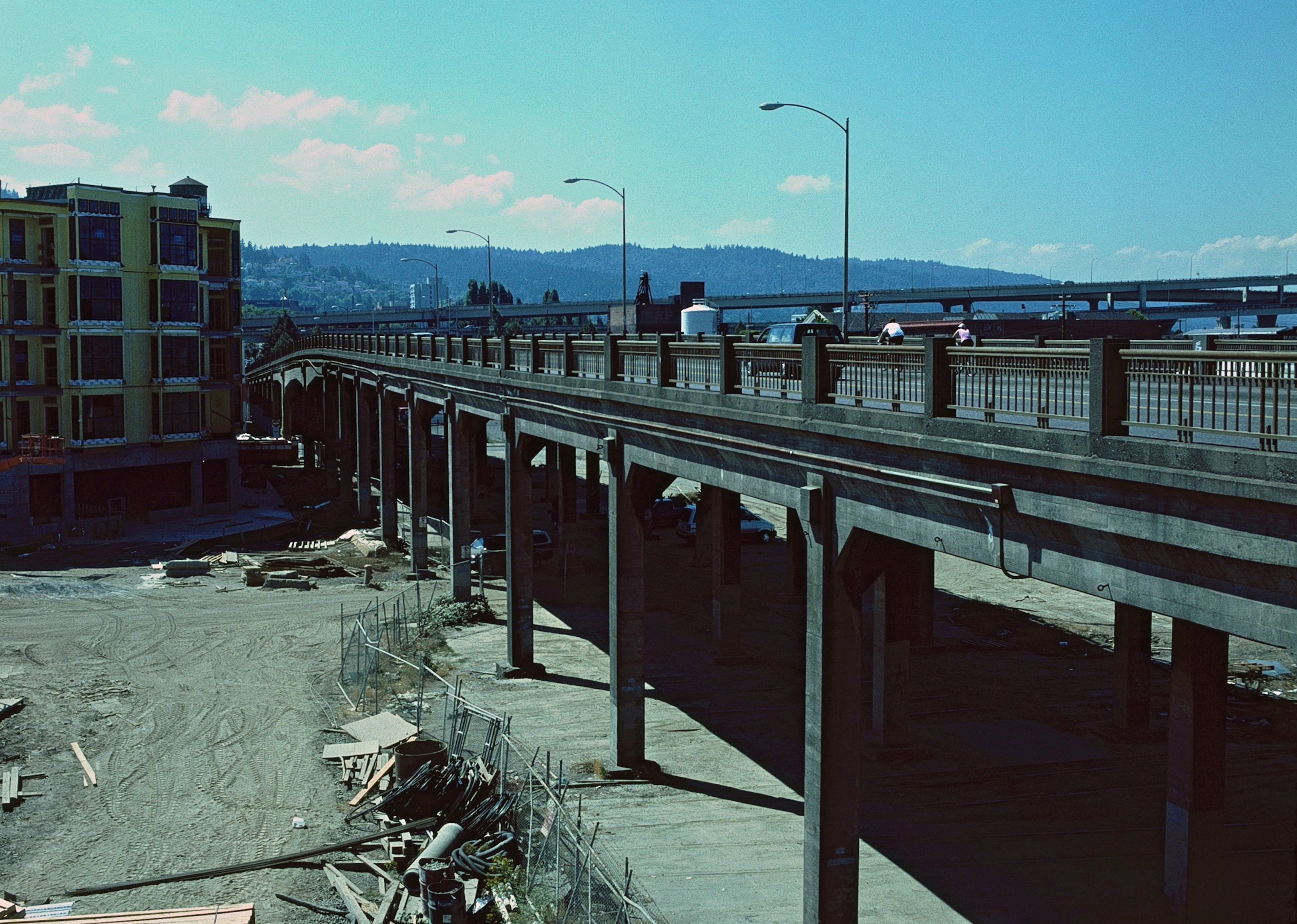 The old "Lovejoy Ramp" (which was really more of a viaduct) that connected NW 14th Avenue with the Broadway Bridge, in Portland, Oregon. It was closed on the morning of August 1, 1999 (less than 24 hours after the photo was taken) and demolished over the following months, its easternmost section (out of view here) rebuilt as a shorter ramp between 9th Avenue and the bridge. The photo is looking northwest and was taken from a connecting viaduct/ramp on 10th Avenue, which closed at the same time and was also demolished. The Lovejoy viaduct (built in 1927–28) originally carried the street over a large rail yard, but the yard was abandoned in the mid-1990s, to be replaced by dense residential development – some of the earliest of which can be seen at left (at what will be the intersection of 11th & Lovejoy). Lovejoy Street still exists at this location, but not elevated.